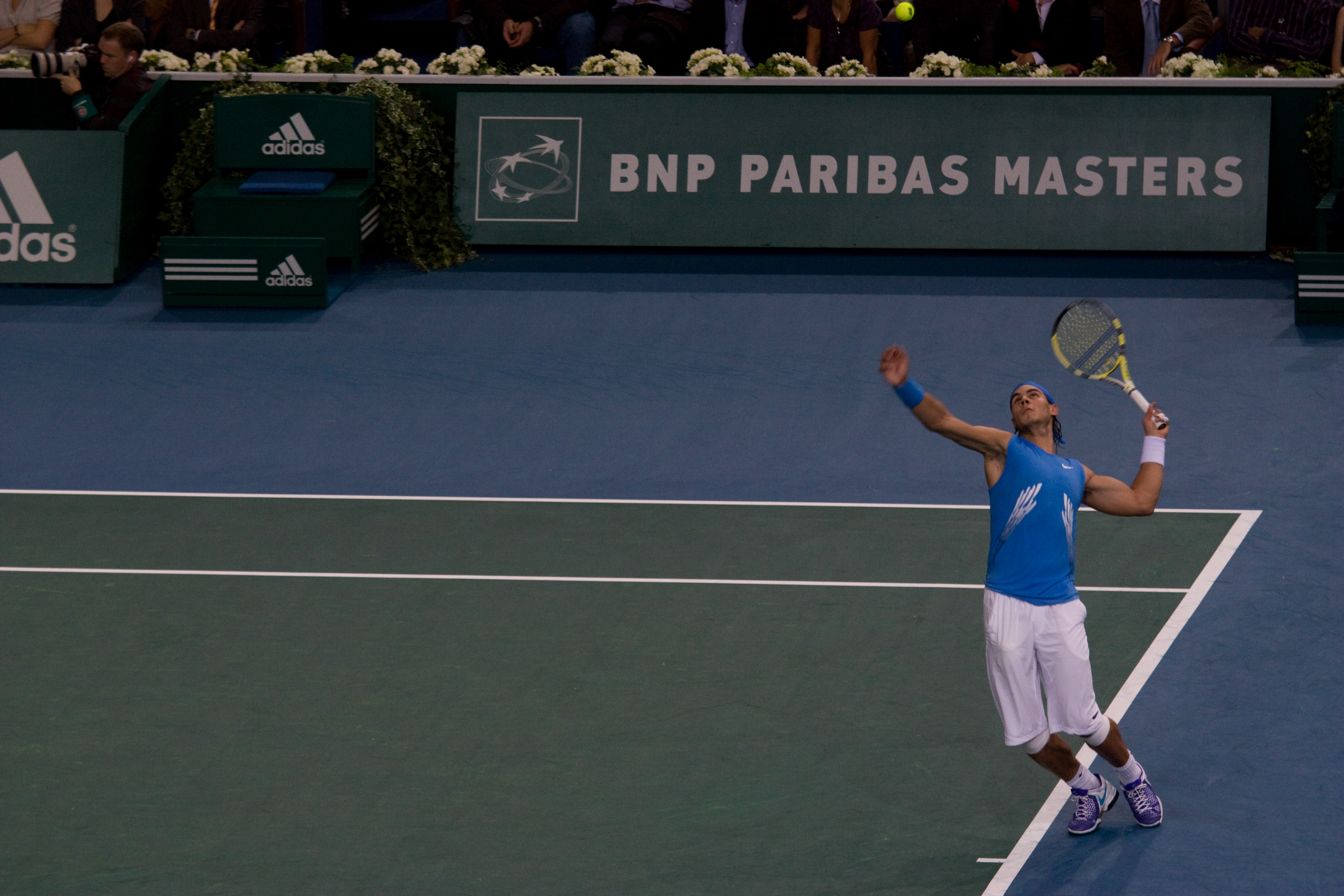 Rafael Nadal against Gael Monfils at the 2008 BNP Paribas Masters